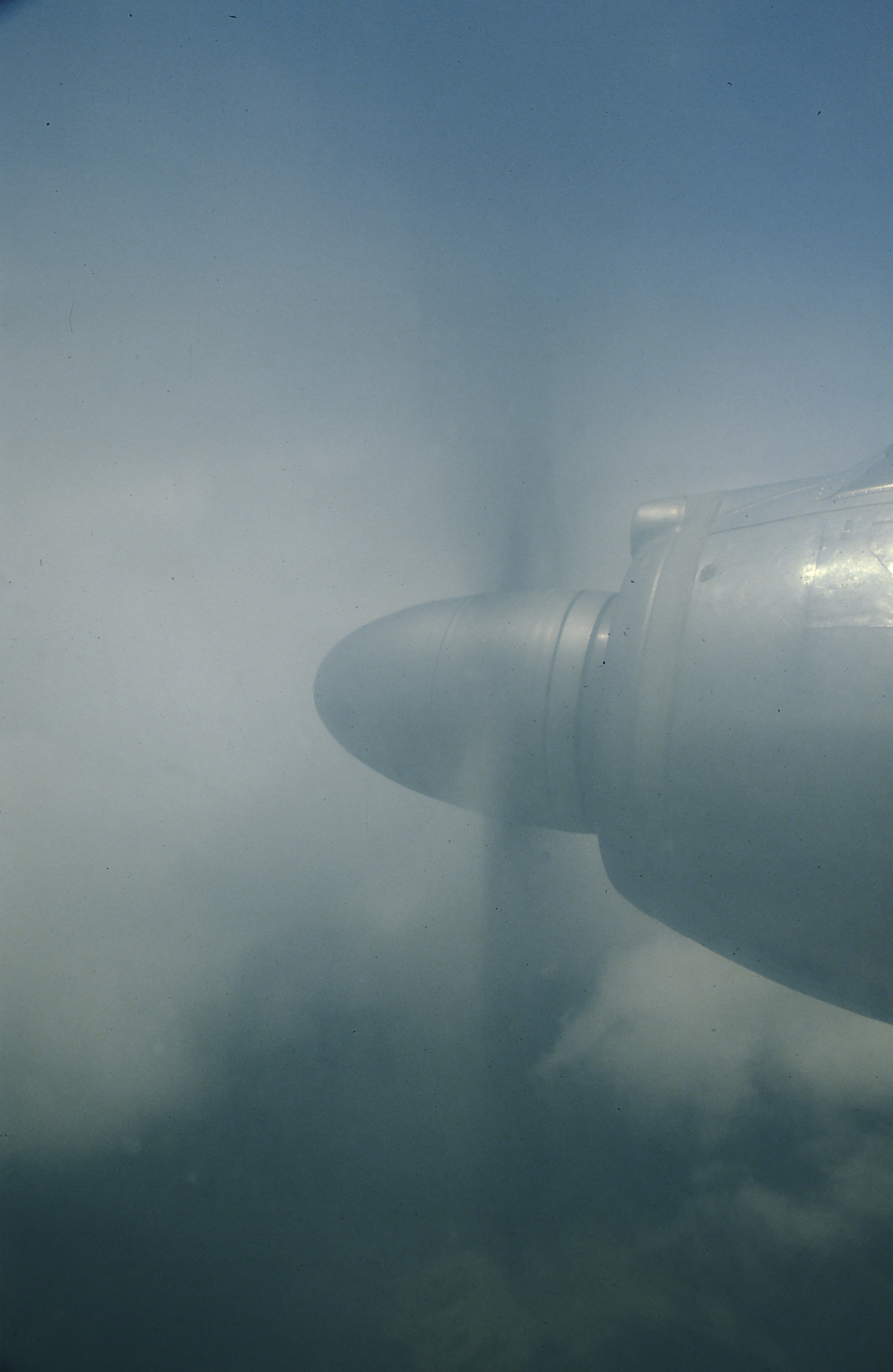 This photo has been scanned with a Reflecta DigitDia 6000 image scanner.